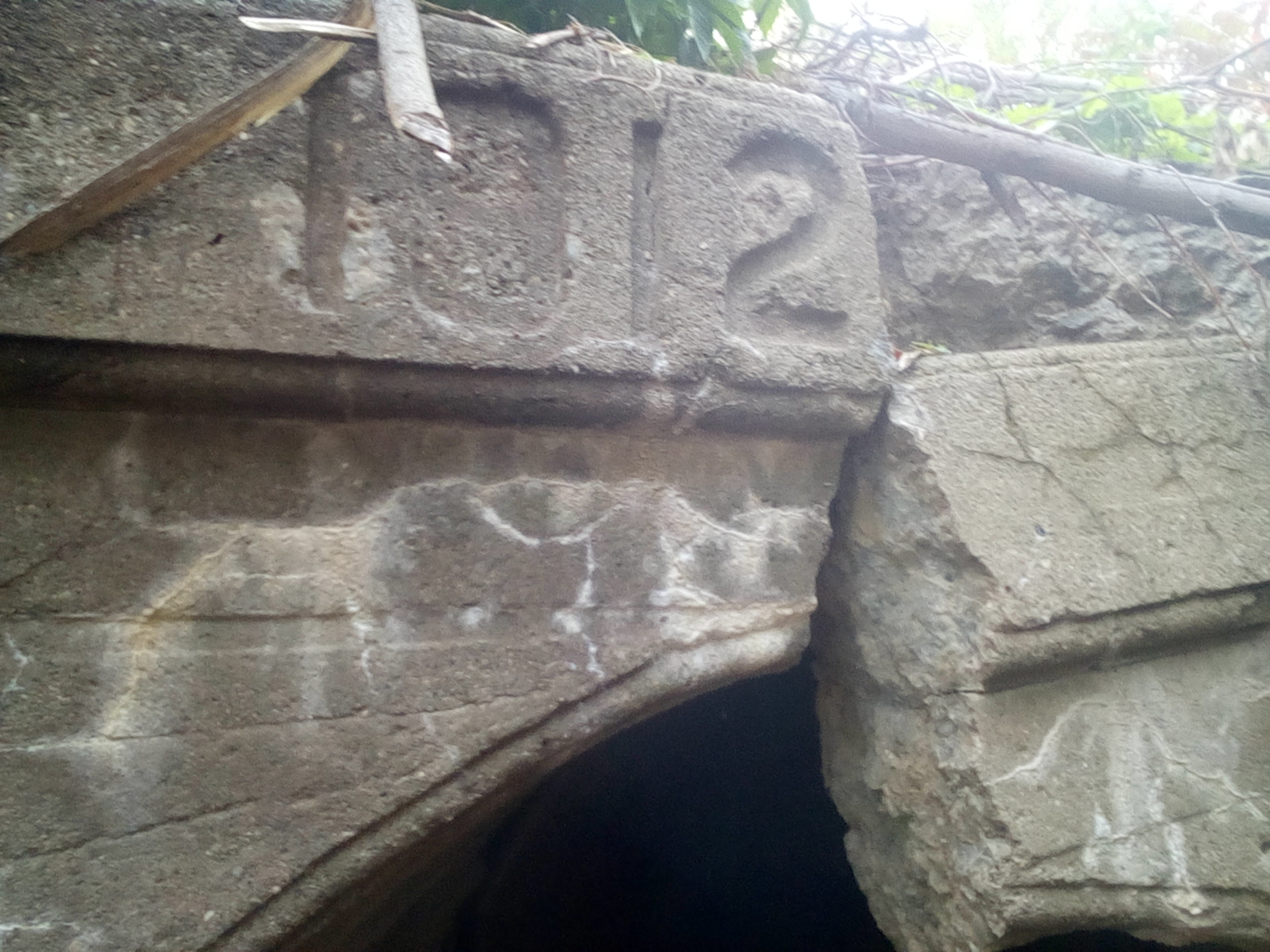 Jackson Creek is the longest lost river of south Etobicoke. This is a dry bridge through which it once flown.